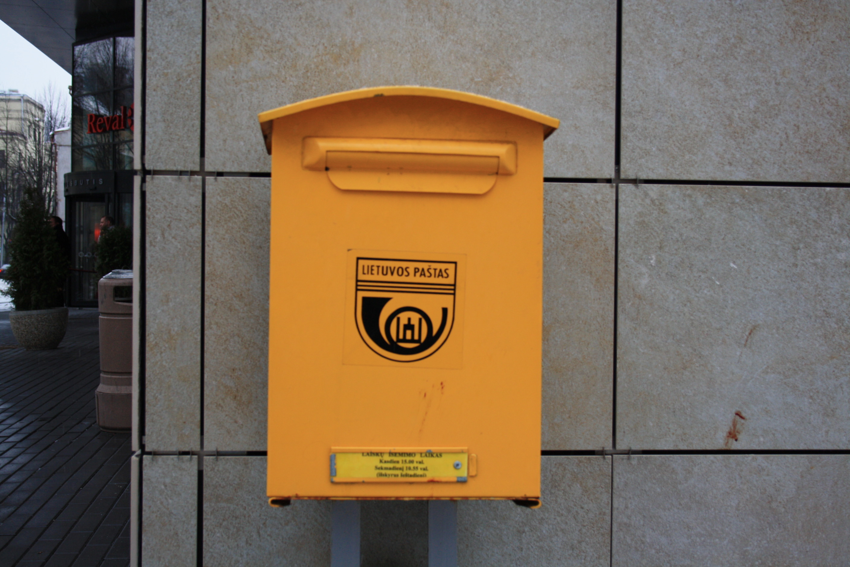 Postbox in Kaunas - Lithuania.